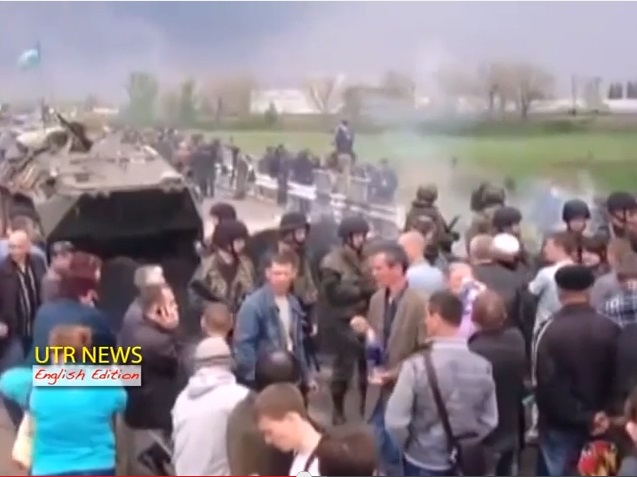 Civilians block ukrainian military near Slavyansk